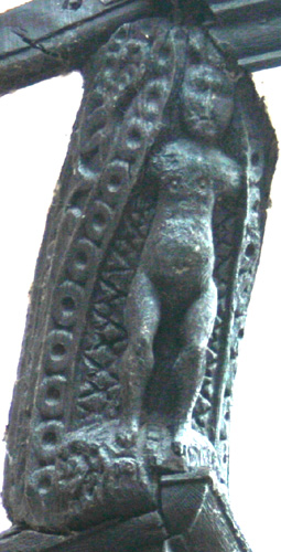 Carved figure from corbel of 46 High Street, Nantwich, Cheshire